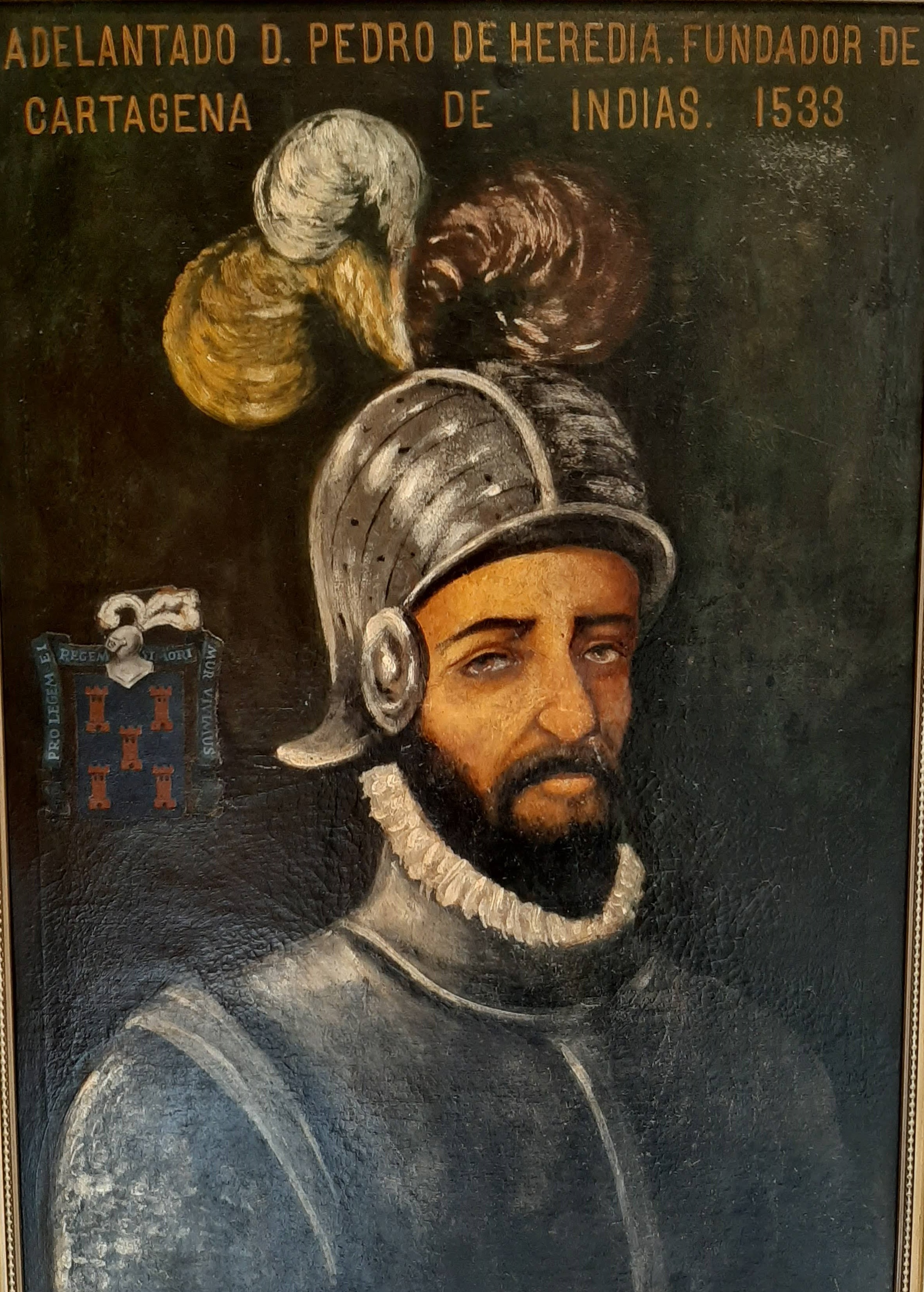 Portrait of the Spanish conquistador Pedro de Heredia in the museum Palace of Inquisition, Cartagena, Colombia